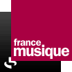 This is a Logo owned by Radio France